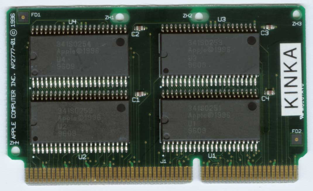 Apple Pippin firmware board scan.